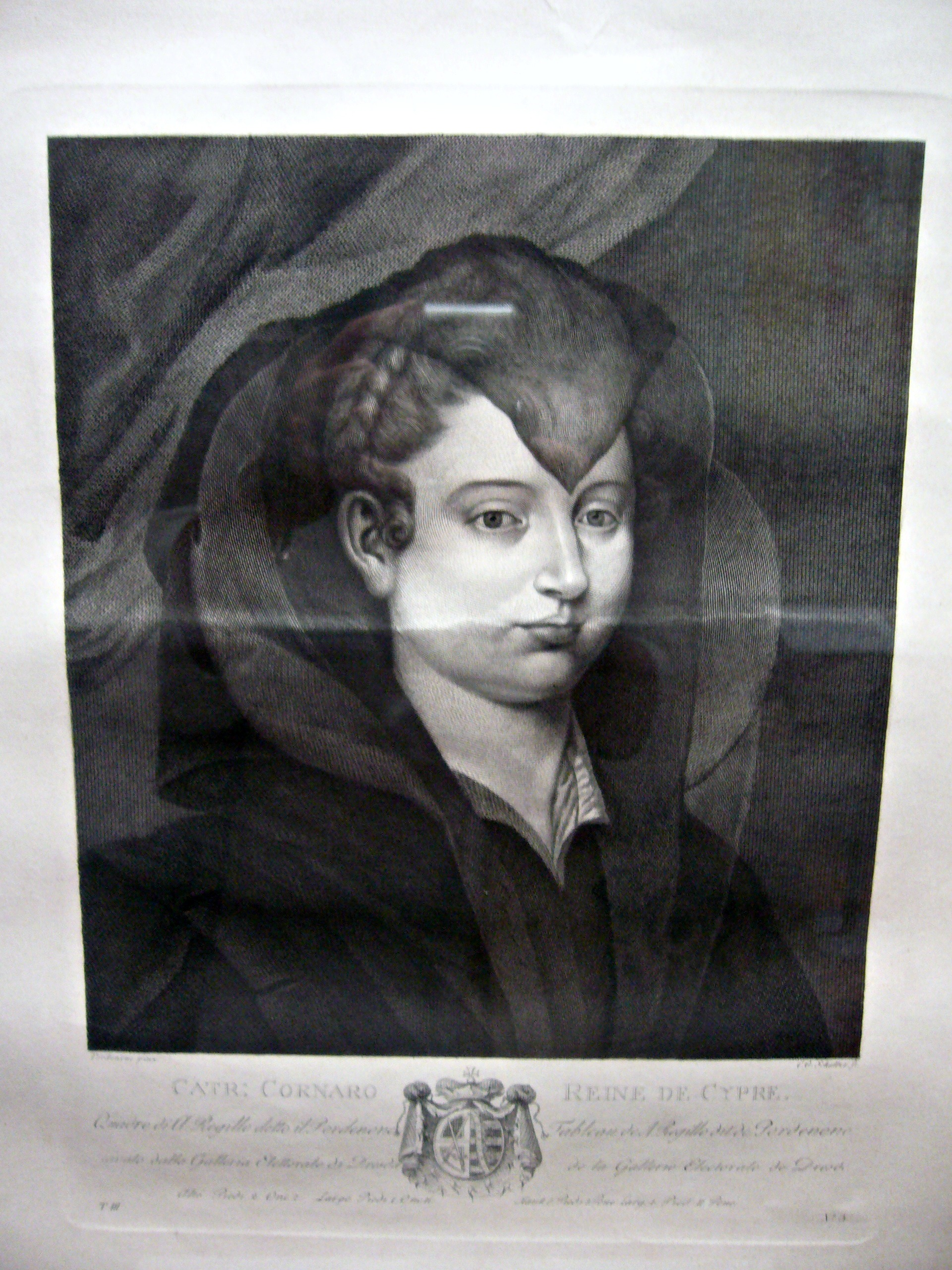 Caterina Cornaro Queen of Cyprus The artist made the portrait in 1770 after a painting by A. Regillo (Known as II Pordenfne), which is in the old Masters picture Gallery Drezden. The engraving bears the title "Catr. Coronaro Reine de Chypre". The queen is dressed in black and has a black veil on her head. The inscription under the portrait is accompanied with the coat of arms of the queen. Leventis Municipal Museum, Nicosia, Cyprus